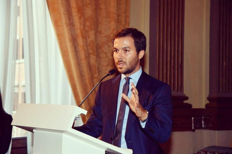 Telsy AD - Emanuele Spoto